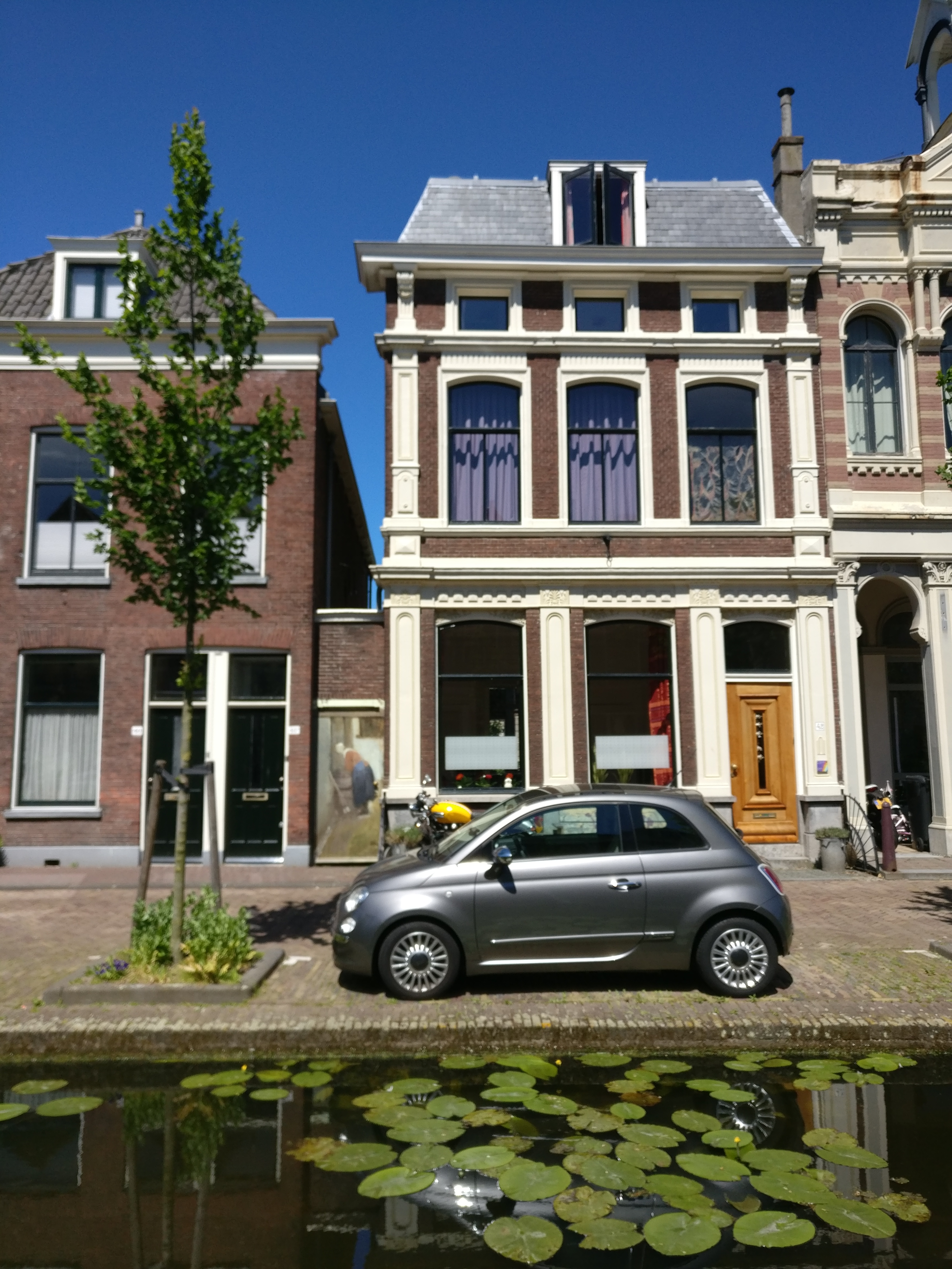 Possible location of "Het straatje" (The Little Street) by Johannes Vermeer .